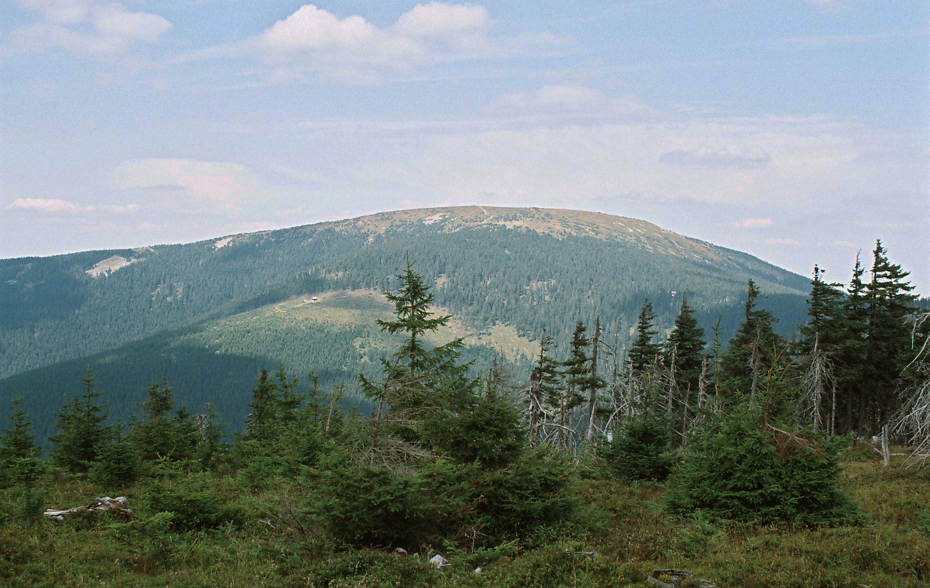 Śnieżnik Kłodzki mountain in Eastern Sudety, the southern side